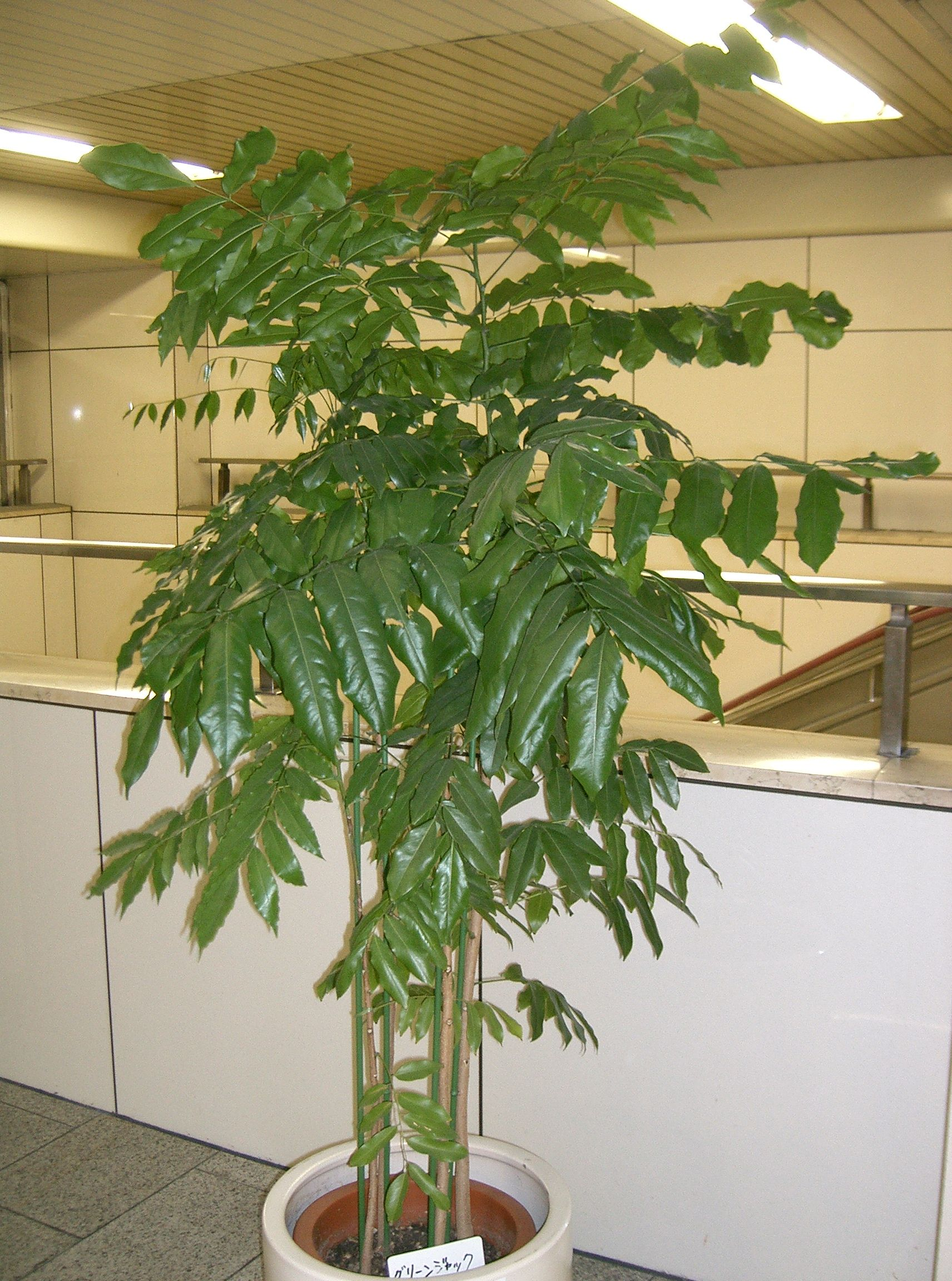 Scientific name: Castanospermum australe. Place: Osaka-fu Japan